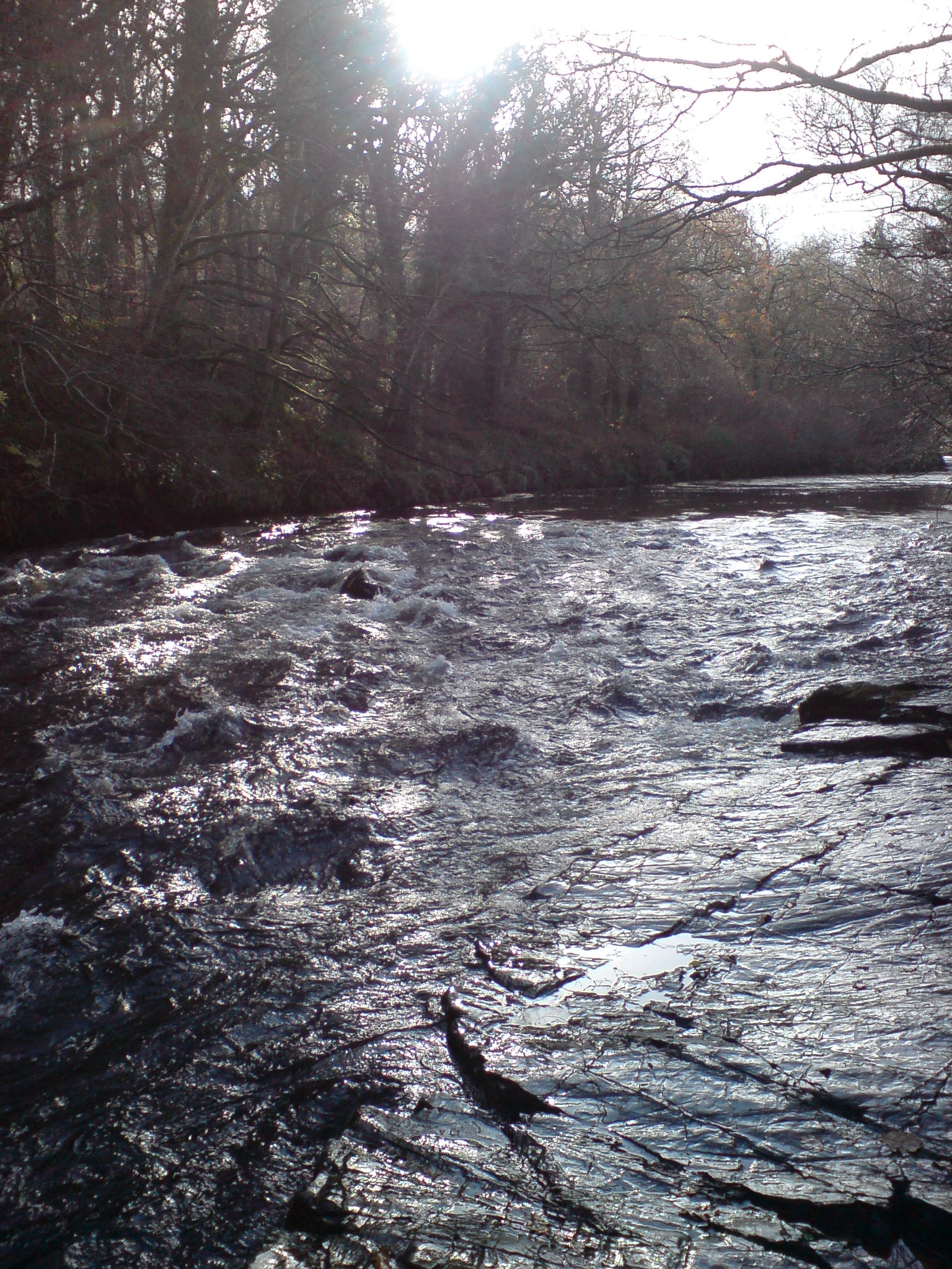 Author: Jamsta